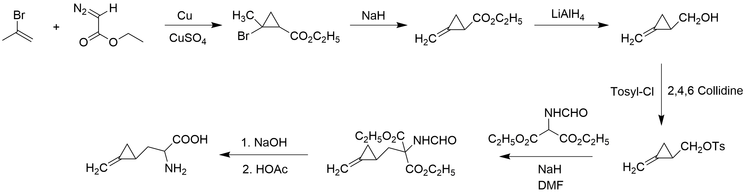 An example of a synthesis pathway of hypoglycin A